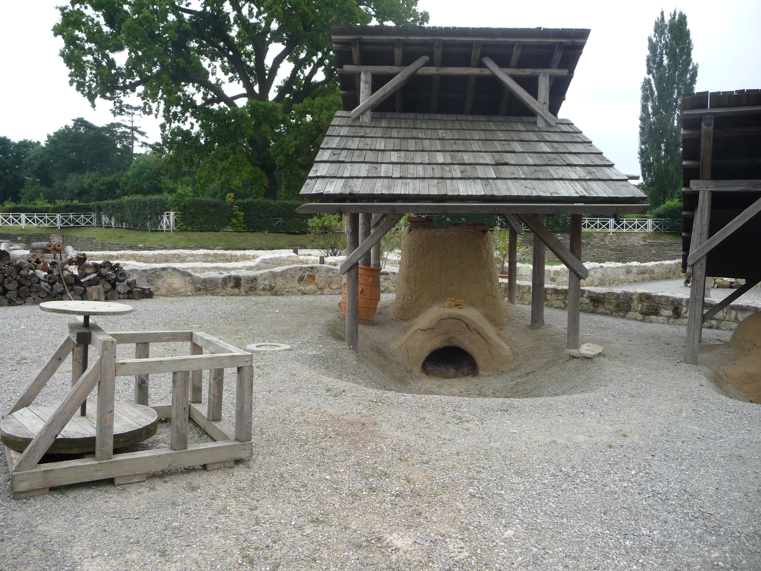 ART CARNUNTUM Dieses Bild wurde anlässlich des österreichischen Tags des Denkmals 2012 in Niederösterreich eingereicht.